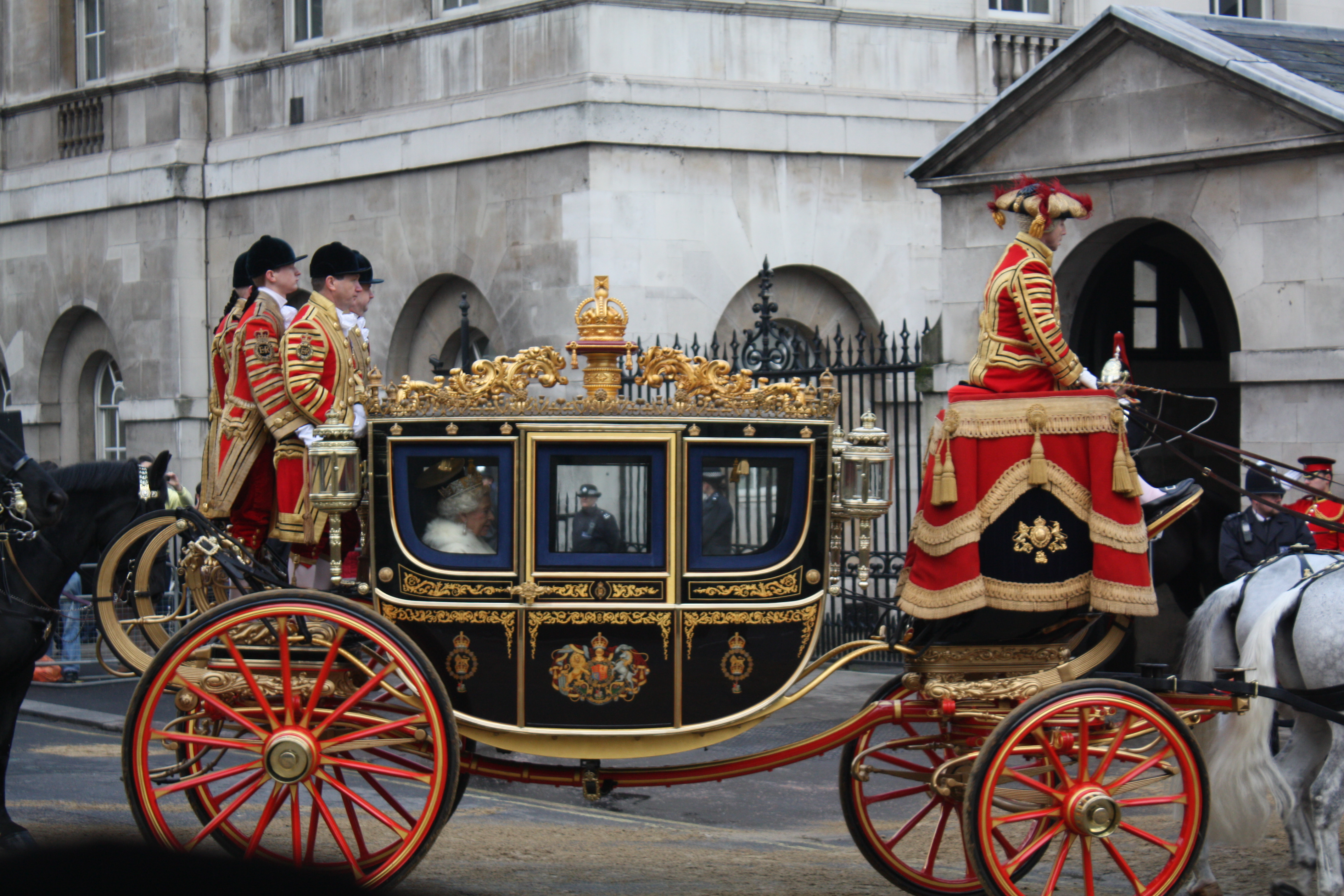 HM Queen Elizabeth II in the Royal Procession along Whitehall from the Houses of Parliament back to Buckingham Palace, 3rd December 2008